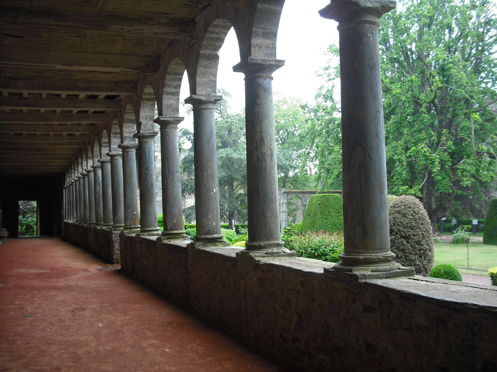 Renaissance gallery of the château in Châteaubriant, France.